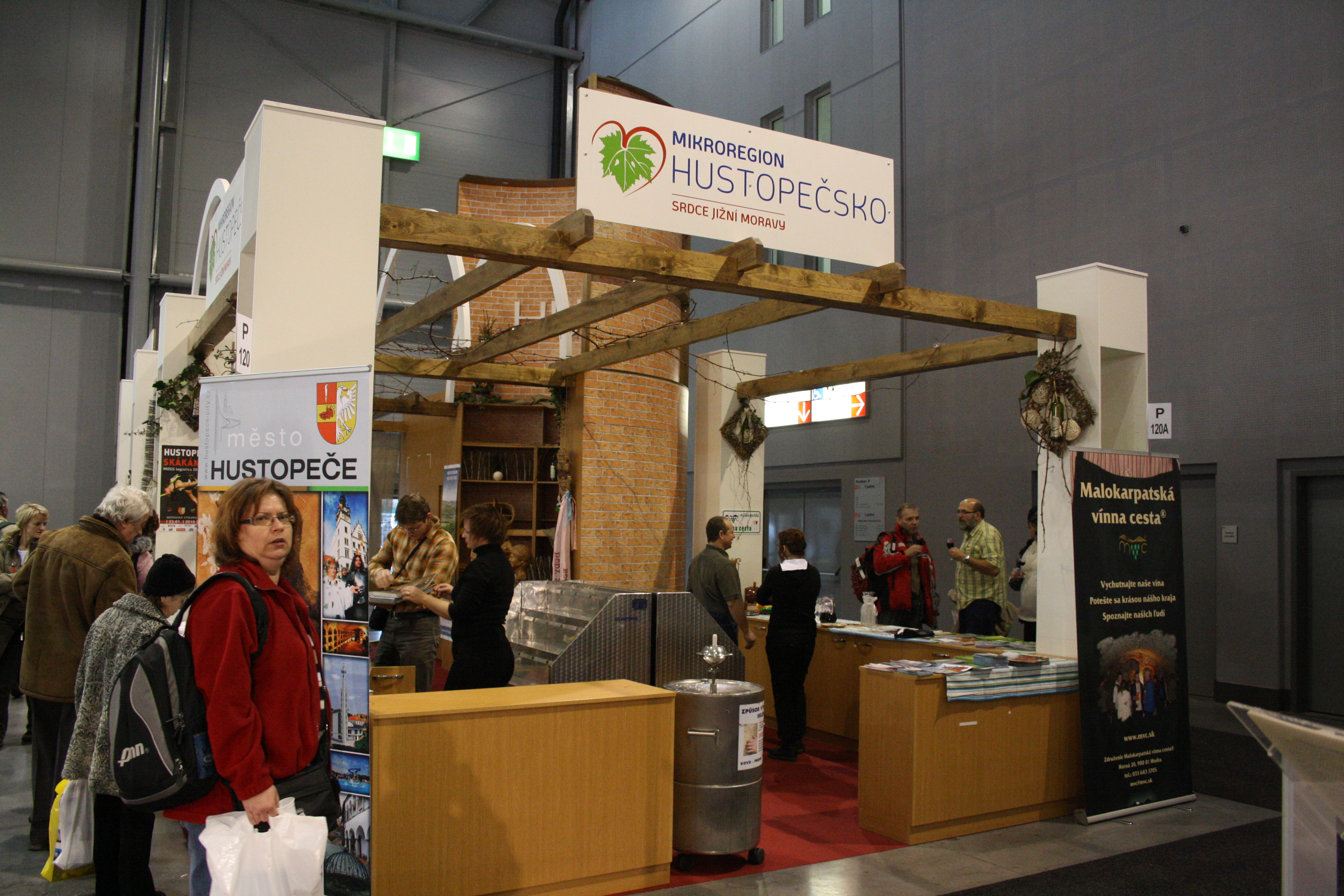 Presentation of various touristic destinations of Czech Republic.